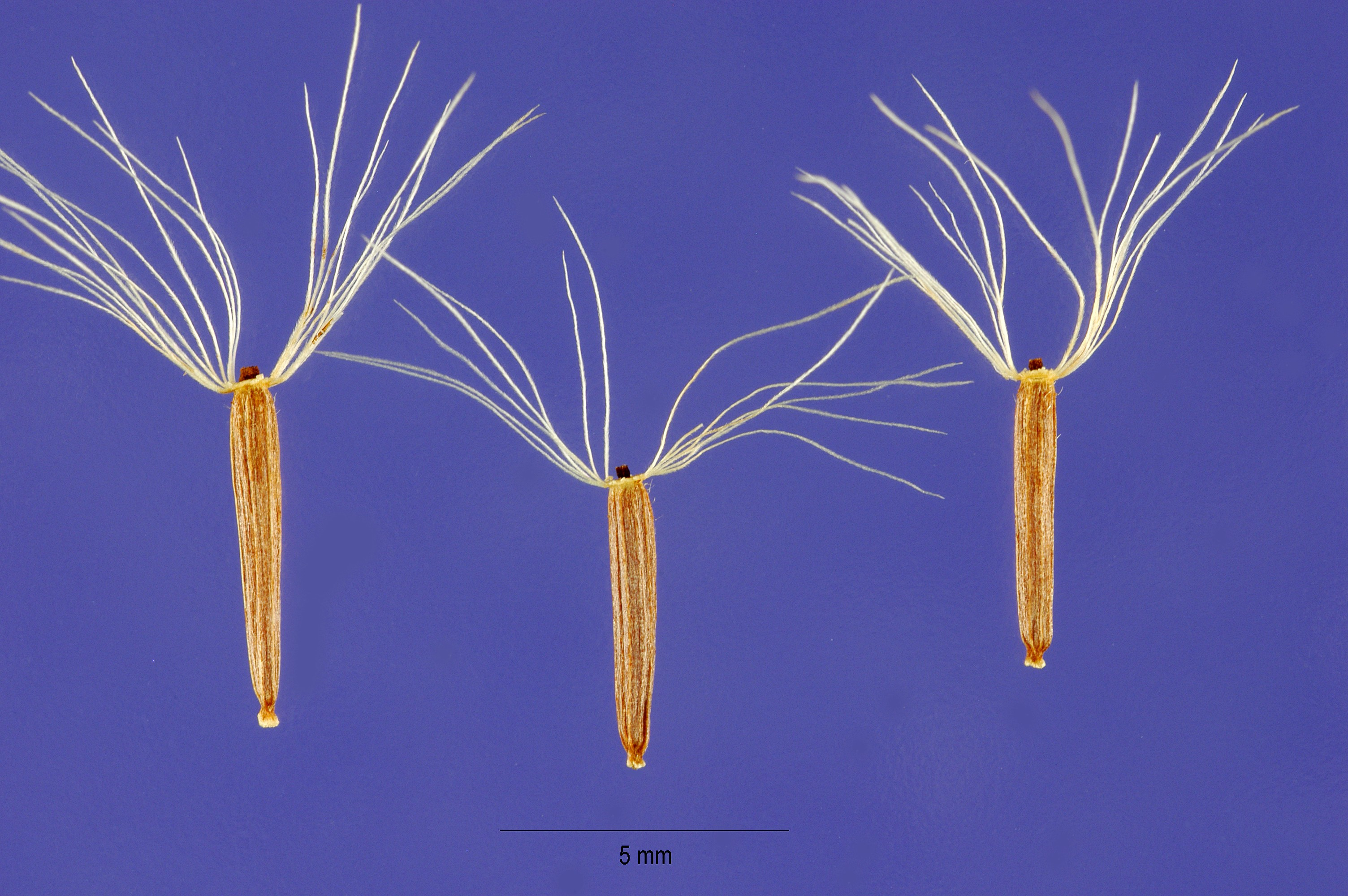 Arnica latifolia from Steve Hurst. Provided by ARS Systematic Botany and Mycology Laboratory. United States, AK, Alitak.